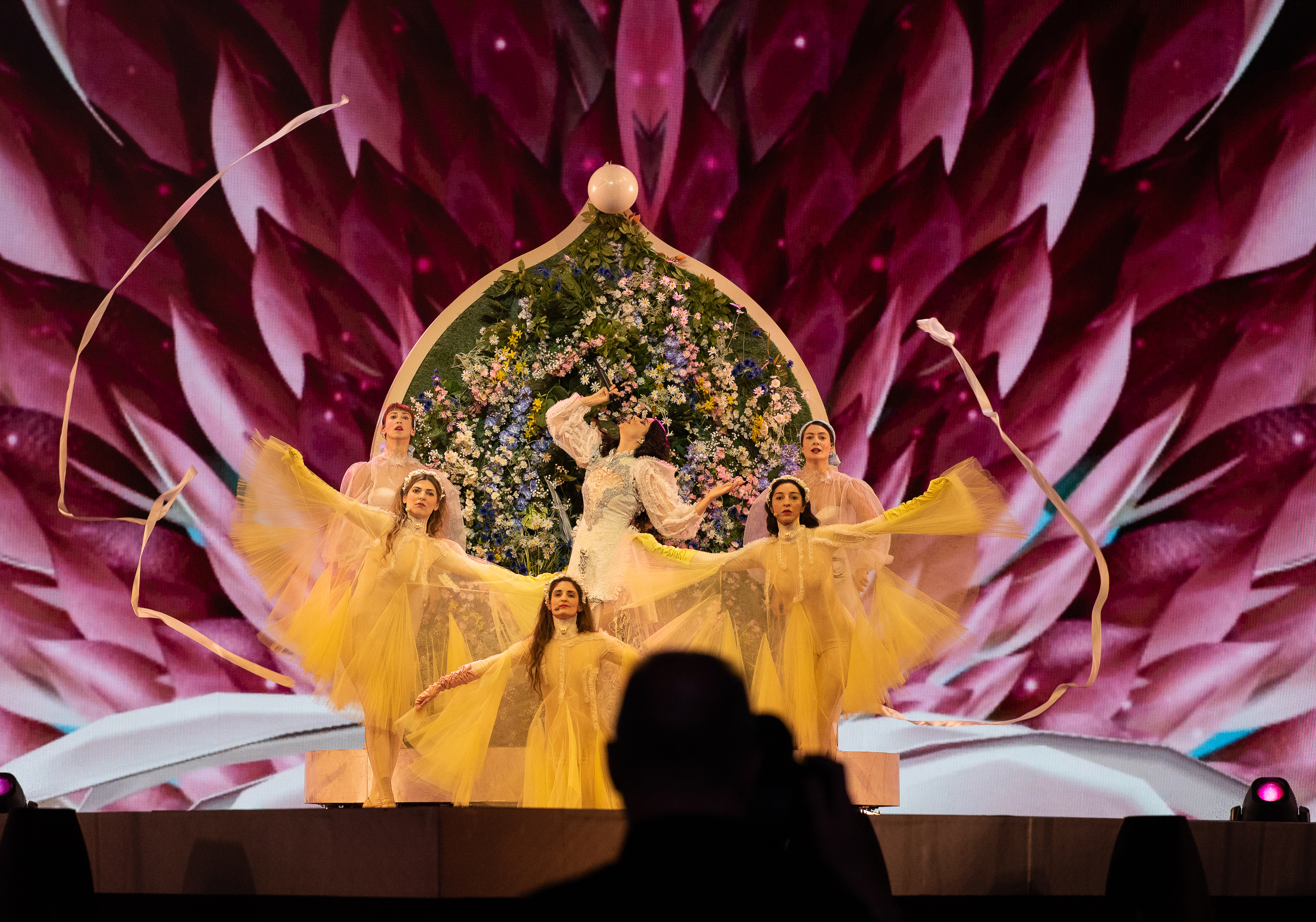 At the 2019 Eurovision Song Contest Semi-final 1 dress rehearsal